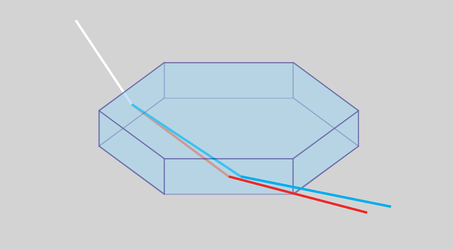 Refraction of rays passing trough a hexagonal prism. This is how sun dogs are created.